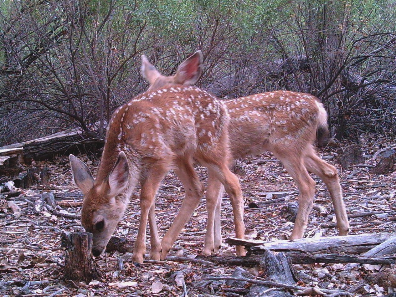 Bosque del Apache National Wildlife Refuge, NM Camera trap project by Matt Farley, Jennifer Miyashiro, and J.N. Stuart. Photo: J.N. Stuart, Creative Commons